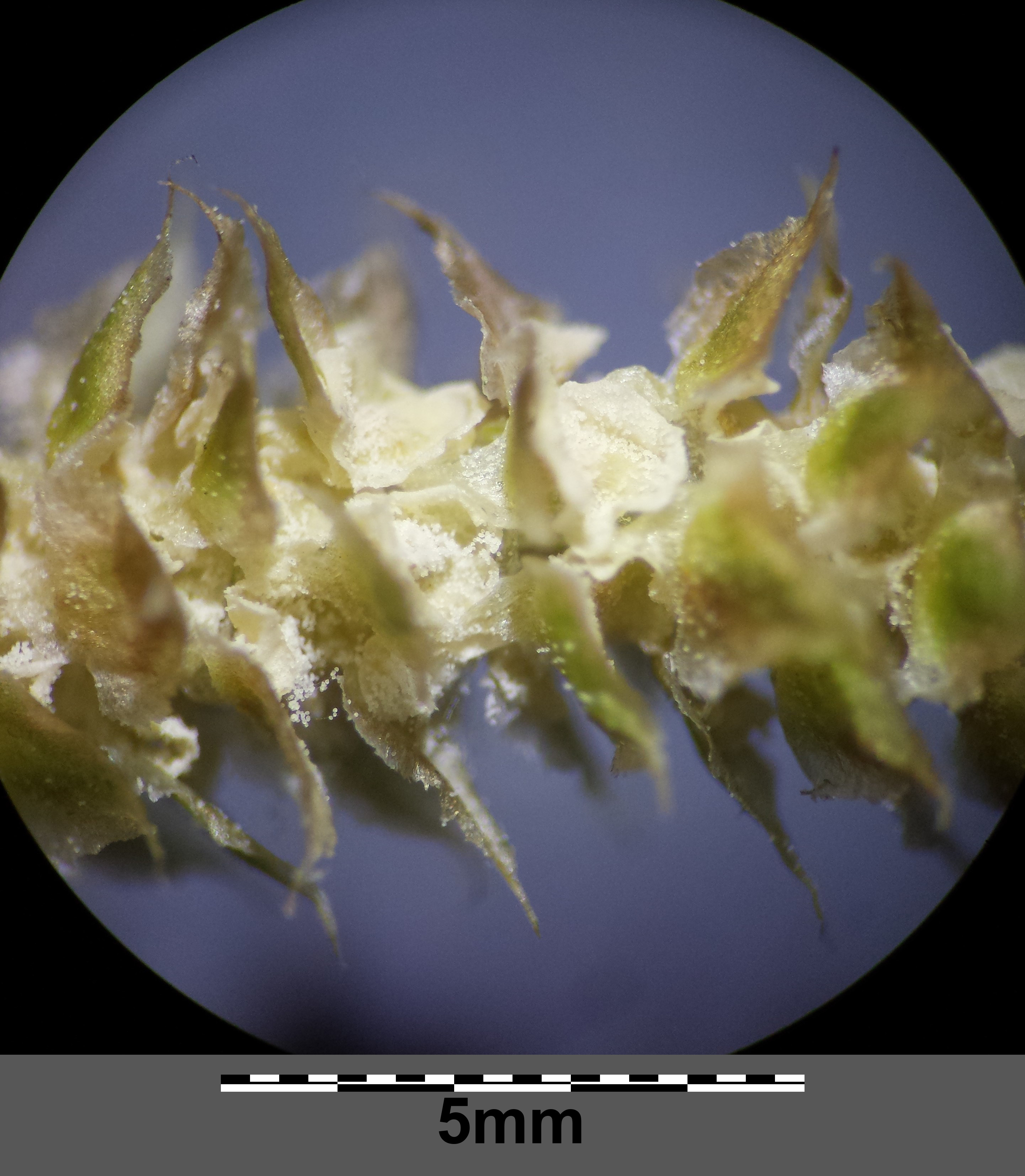 Strobilus (detail) Taxonym: Lycopodium annotinum ss Fischer et al. EfÖLS 2008 ISBN 978-3-85474-187-9 Location: next to Bad Mitterndorf, district Liezen, Styria, Austria - ca. 800 m a.s.l. Habitat: cool wood